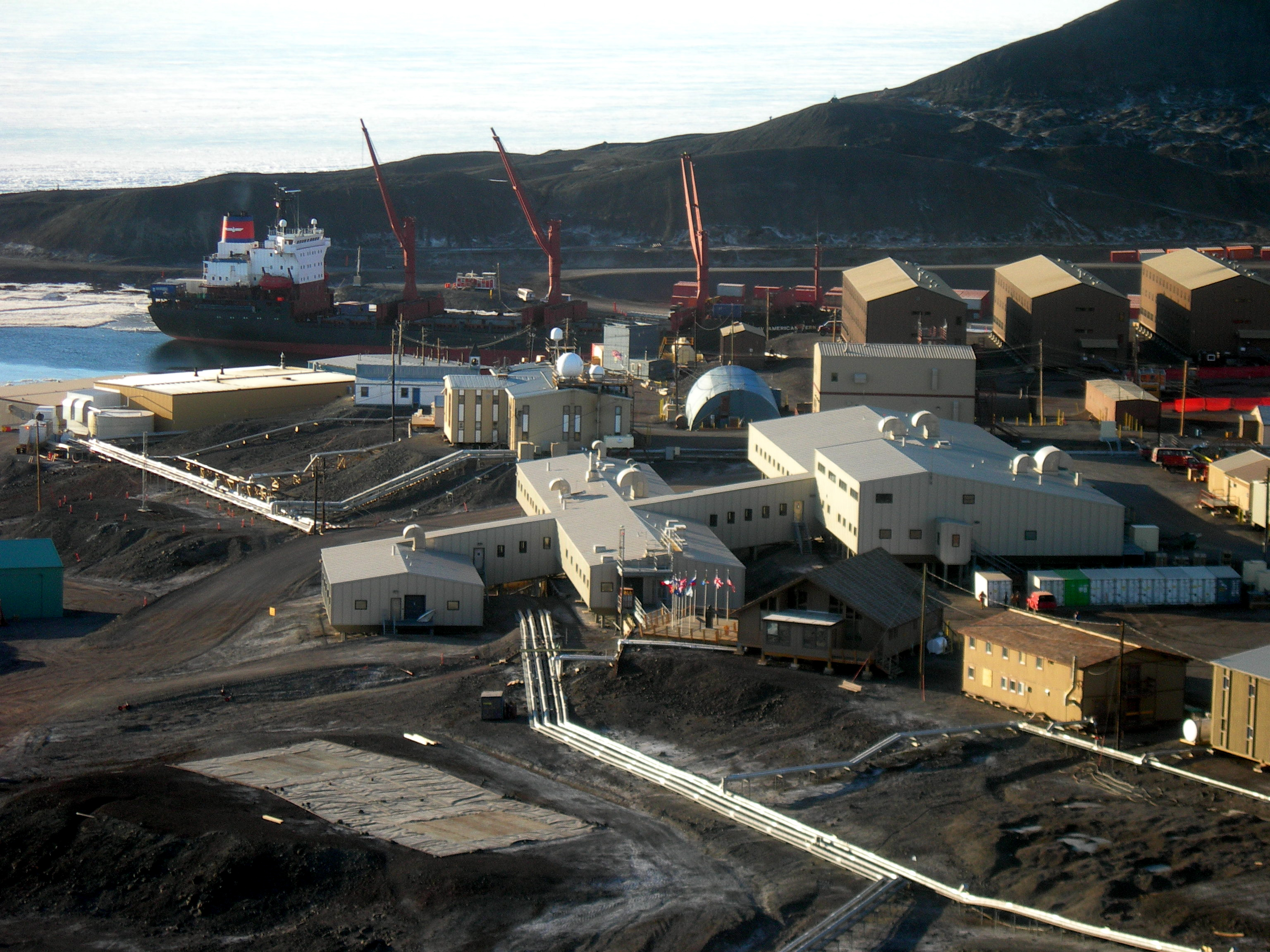 McMurdo Station, Antarctica